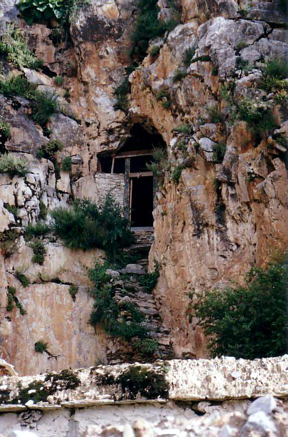 Photo of the entrance to the meditation cave attributed to Padmasambhava at Yerpa, Tibet. Taken in 1993.